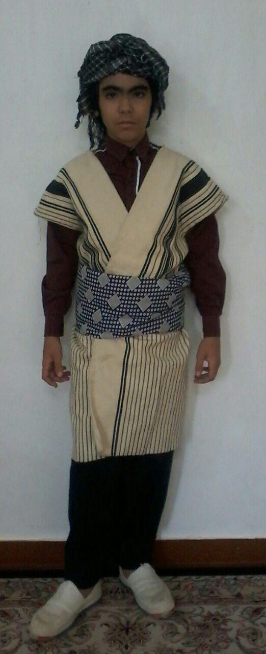 A Feyli Lur boy from Luristan